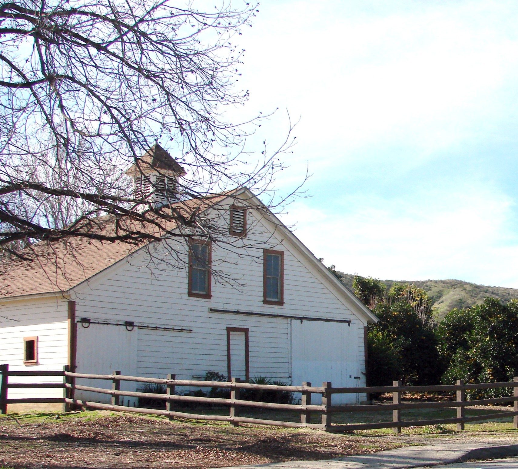 (1 in a multiple picture set) This nicely kept barn was on within an orchard near my town of Redlands, CA. I liked the way the fence wrapped around it.